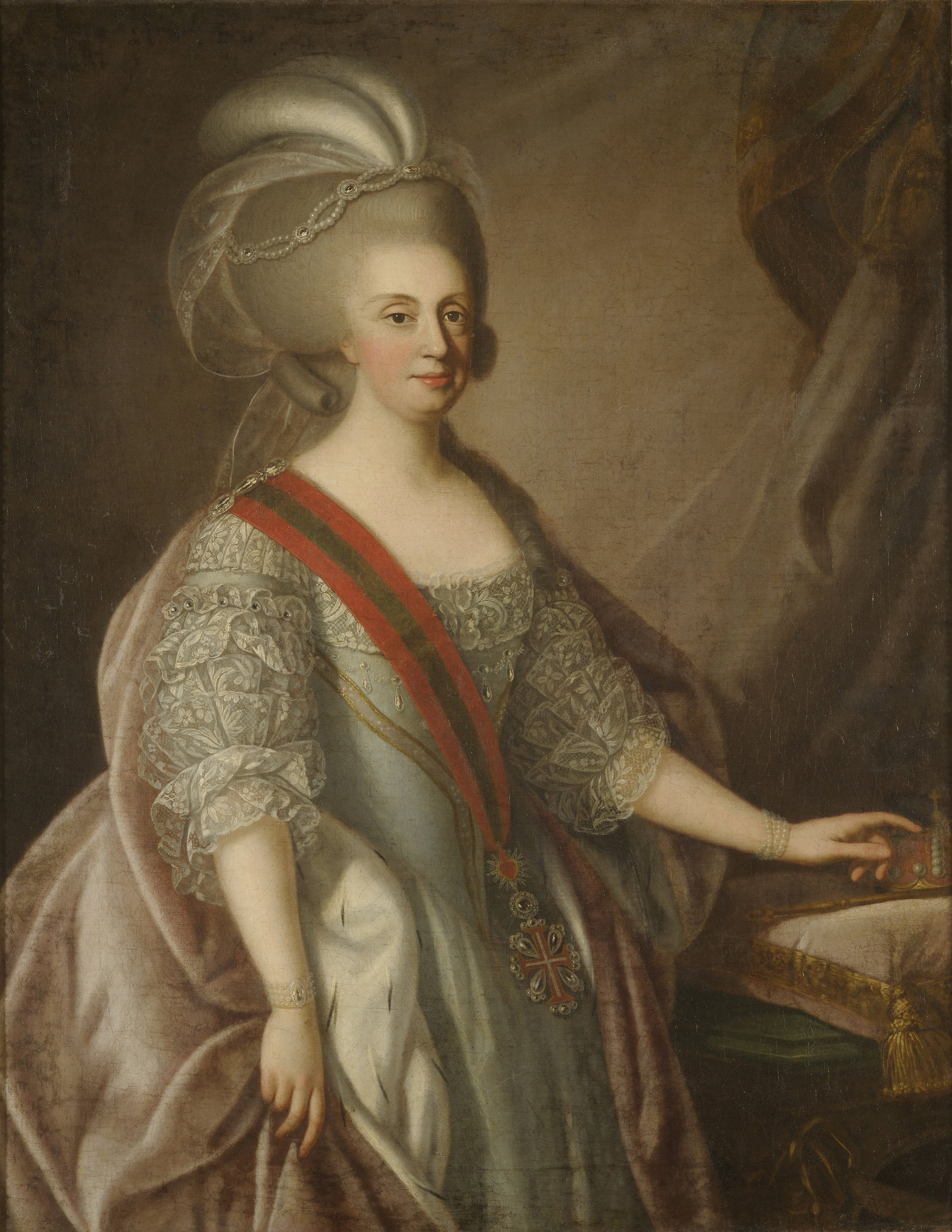 Maria I, Queen of Portugal. Thomas Hickey or Giuseppe Troni (attributed). Oil on canvas. 122 x 94 cm. NATIONAL PALACE OF QUELUZ. Via Google Cultural Institute